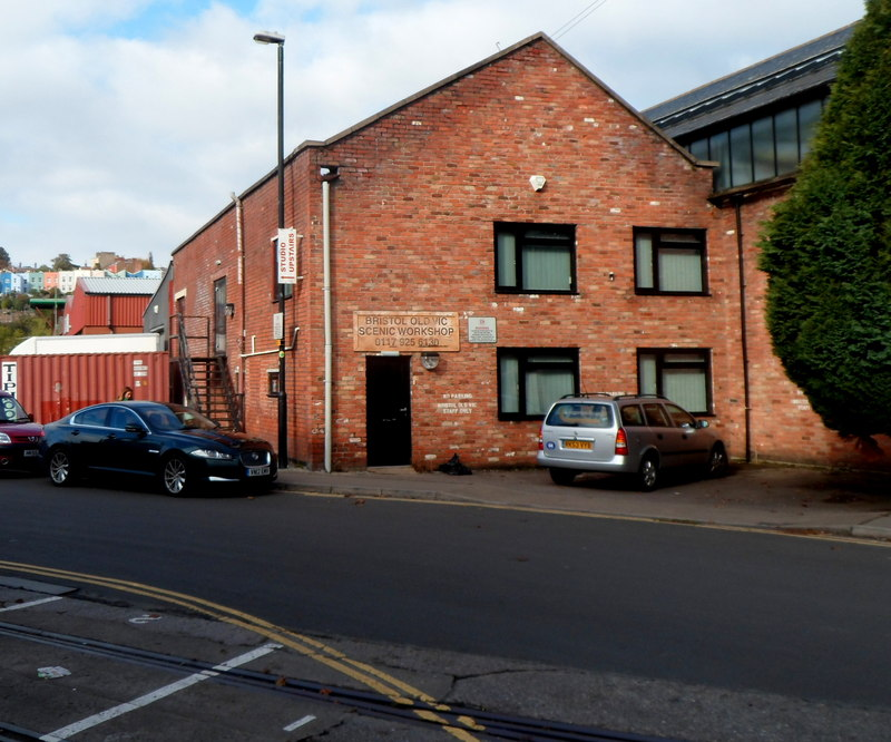 Bristol Old Vic Scenic Workshop